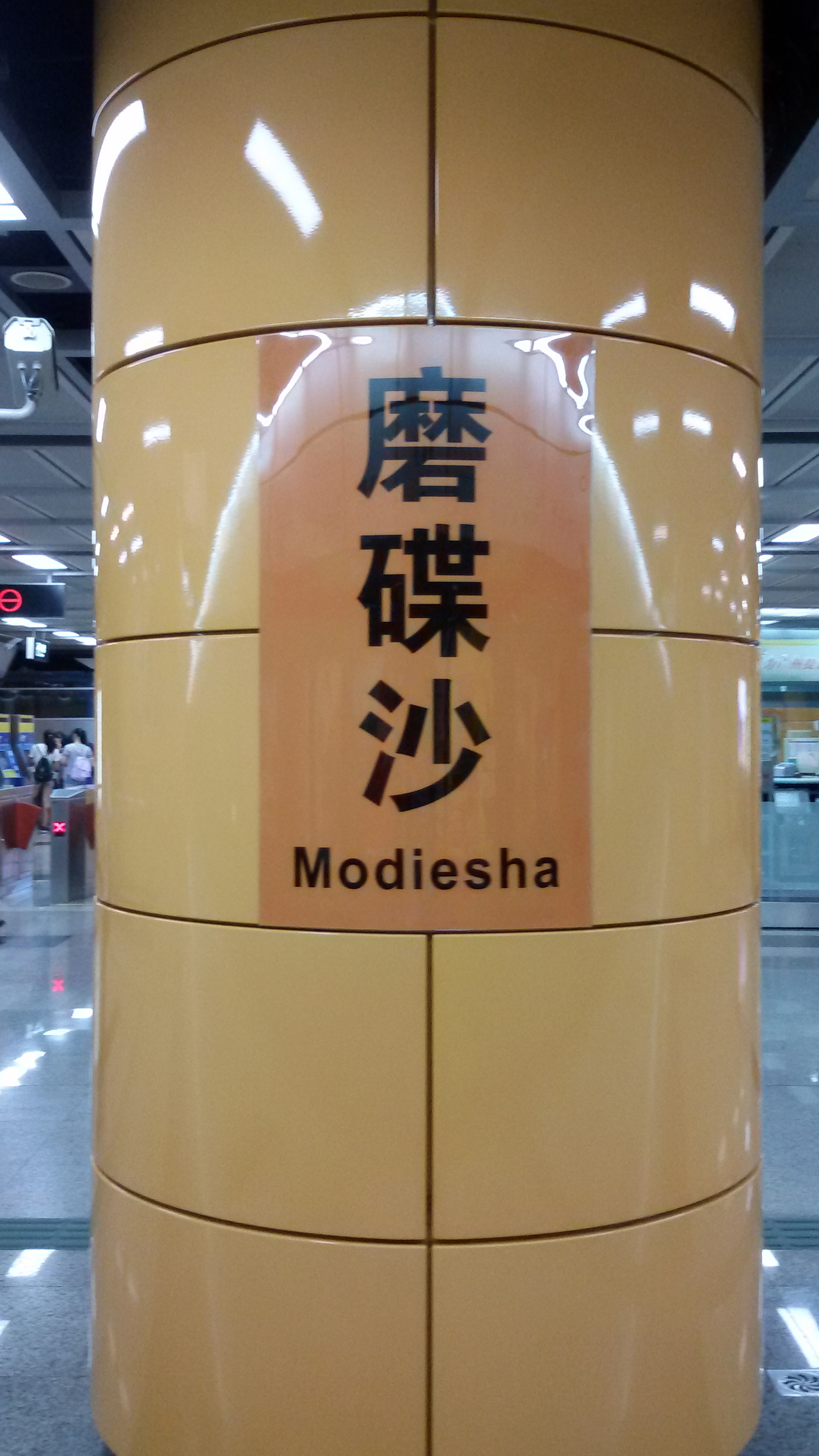 WORD on PILLAR for Modiesha Station in Guangzhou Metro.